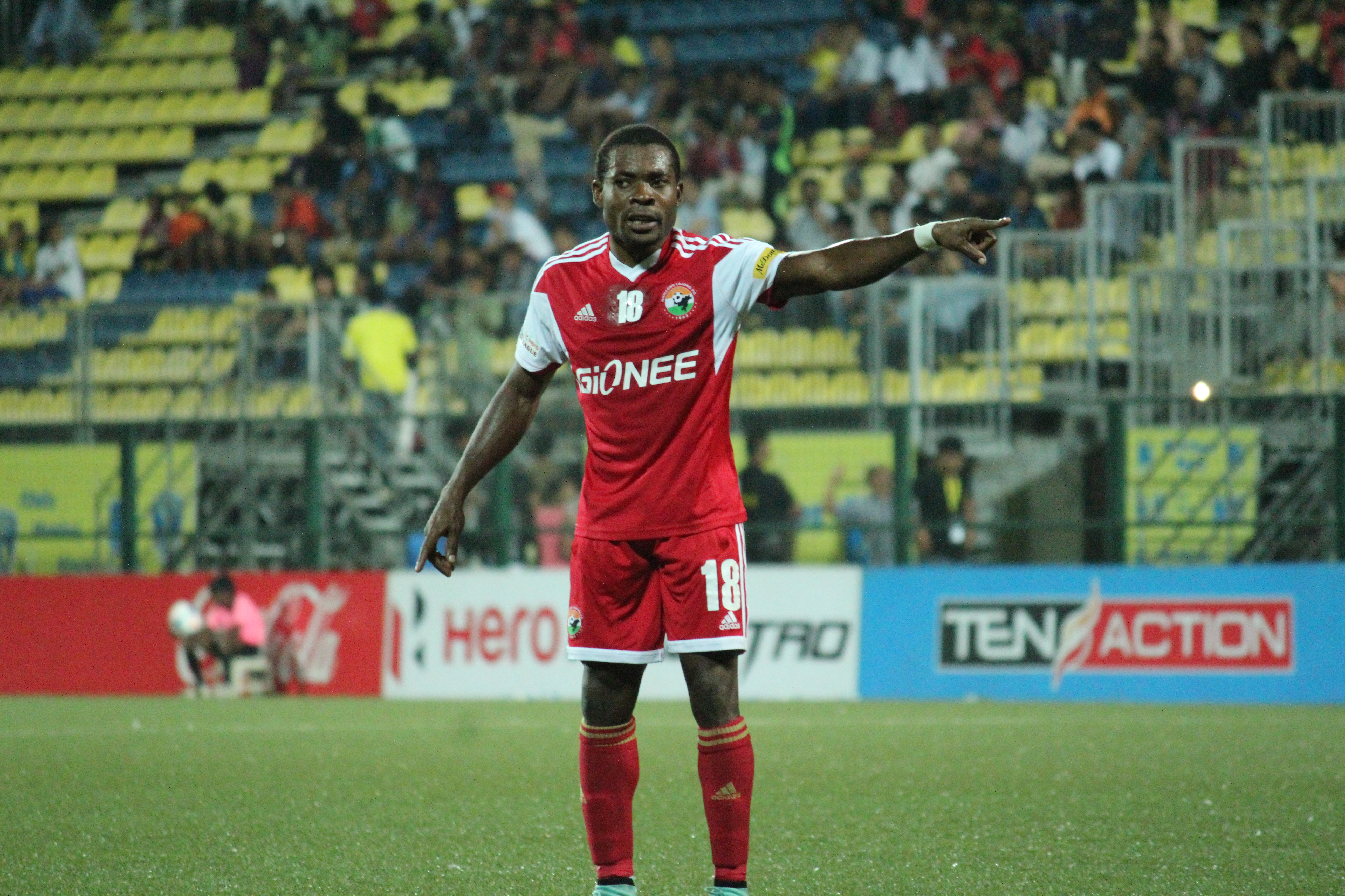 Penn Ikechukwu Orji is an Nigerian football player who currently plays for Shillong Lajong in India as a central midfielder.